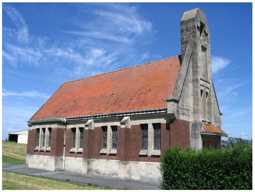 Saint Mary Magdalene church in Cizancourt (France)